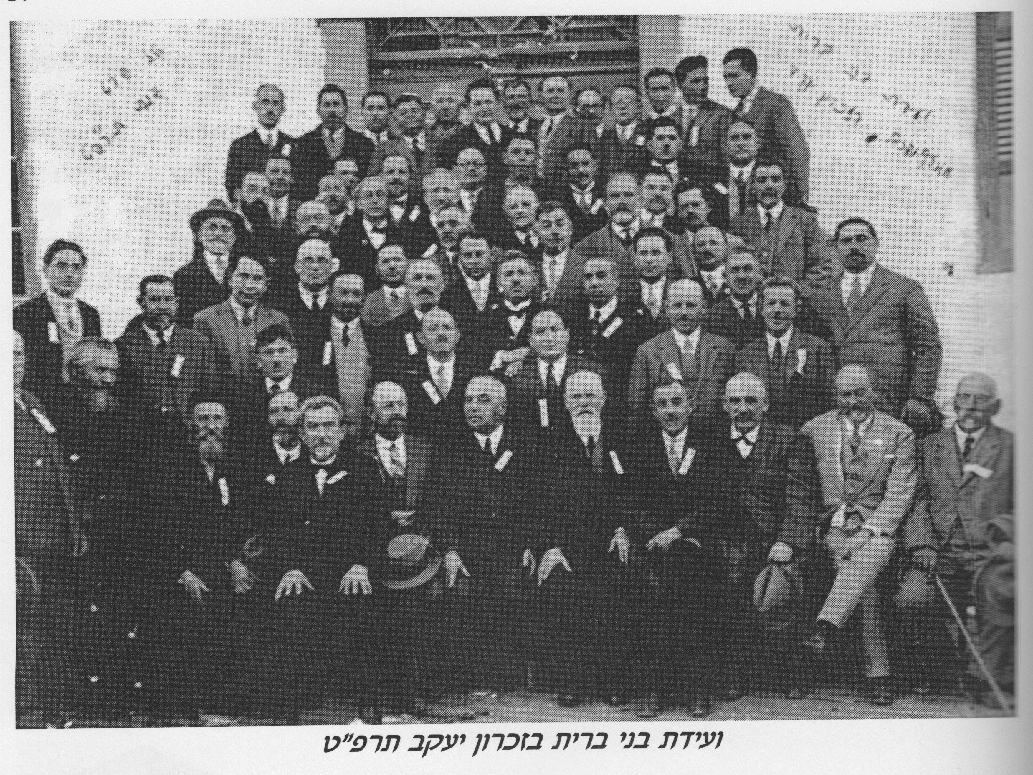 Beni Brit Convention 1929